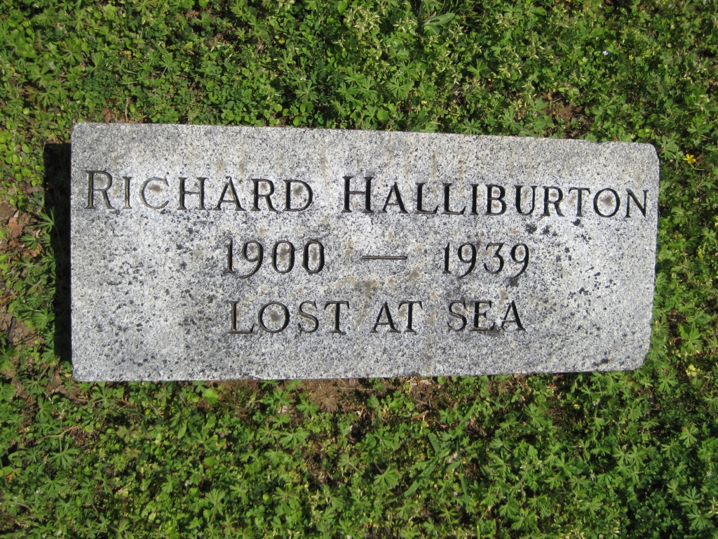 Richard Halliburton. Gravemarker at Forest Hill Cemetery, Memphis